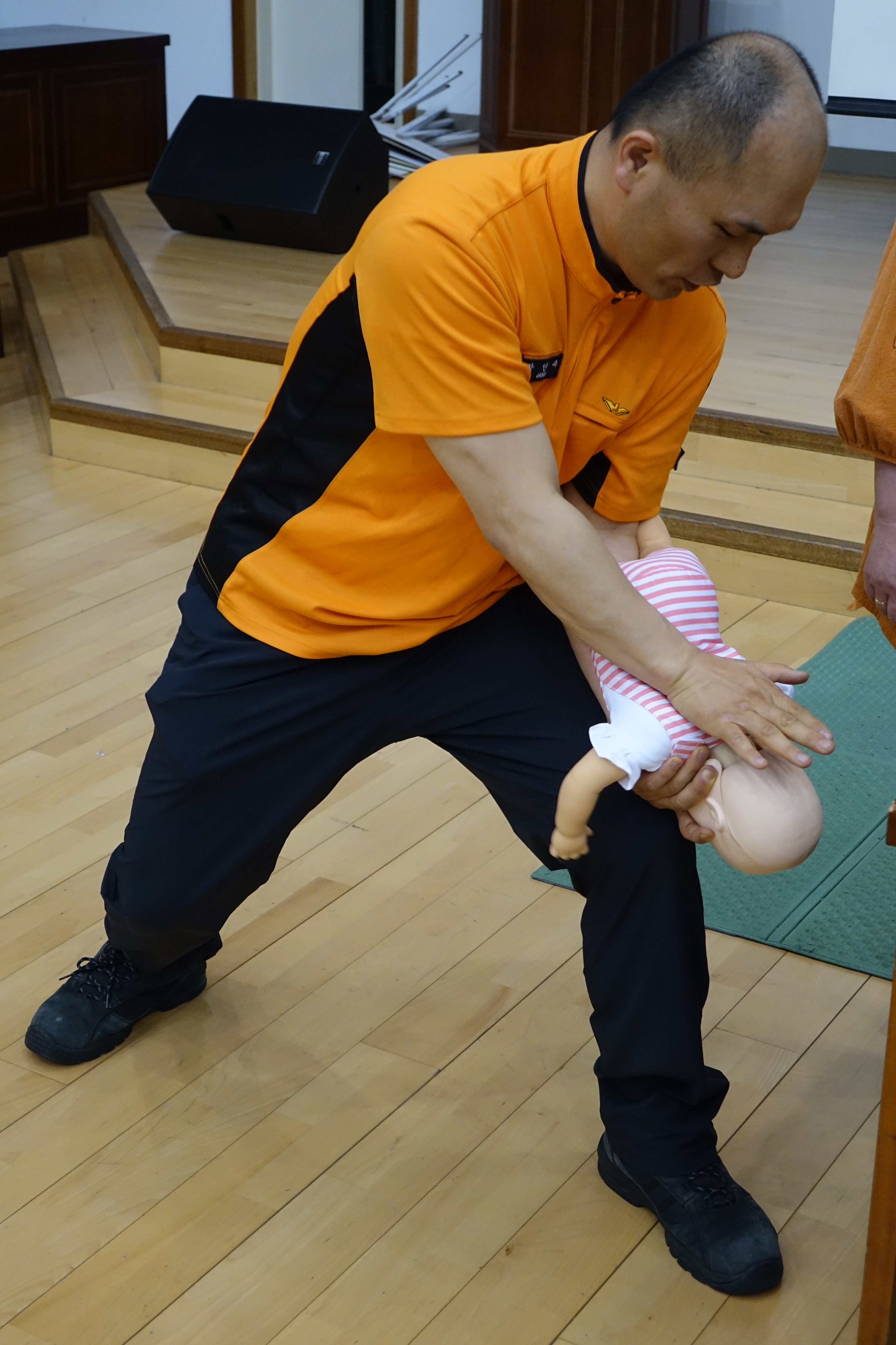 2015년 5월 서울특별시 은평구 은평소방서 시민119산악구조대 시민안전파수꾼 교육에서 장민수가 은평소방서 시민산악구조대원들에게 하임리히법 시범을 보여주고 있다.